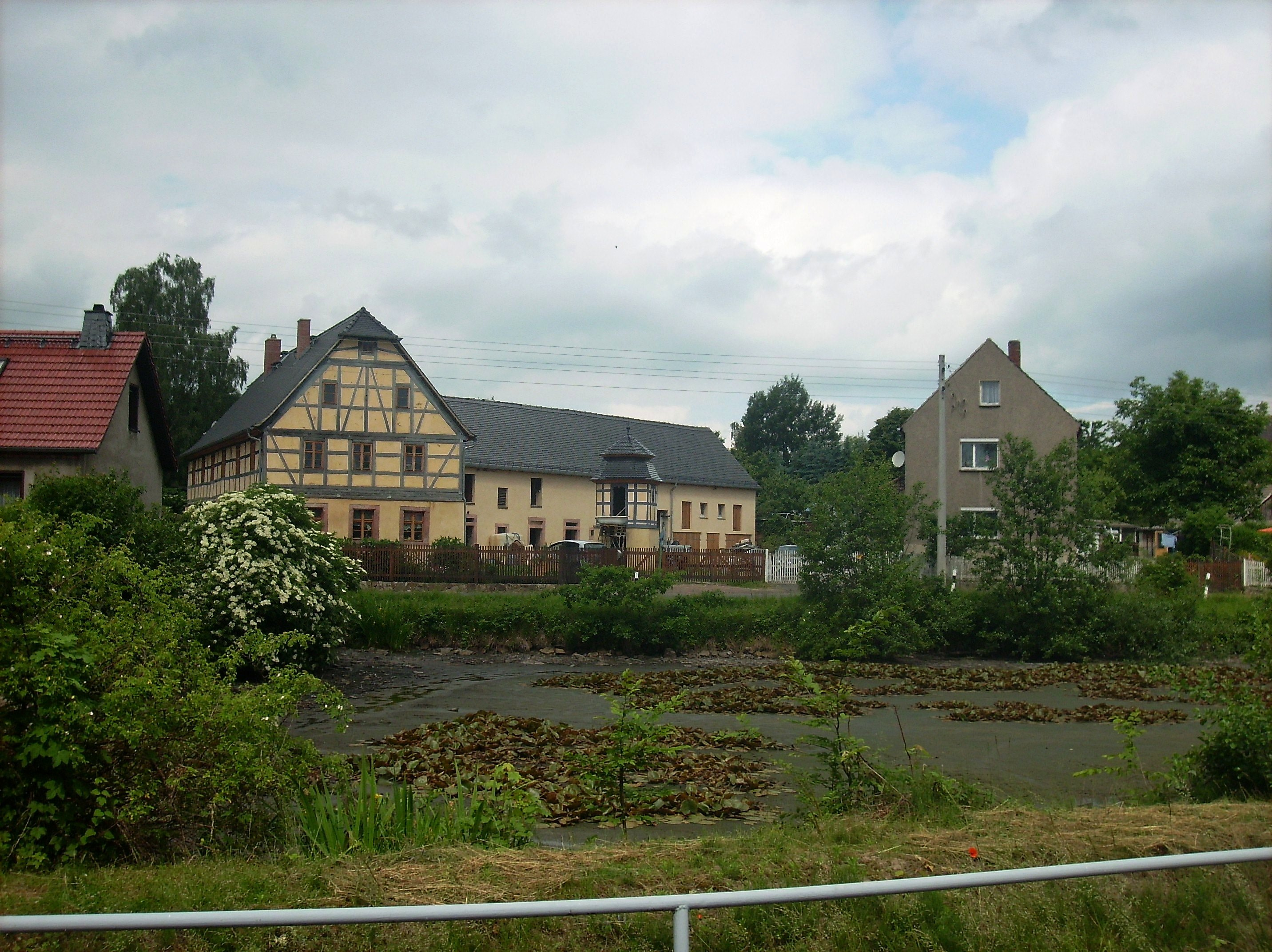 Pond with farmyard an dovecote in Glasten (Bad Lausick, Leipzig district, Saxony)